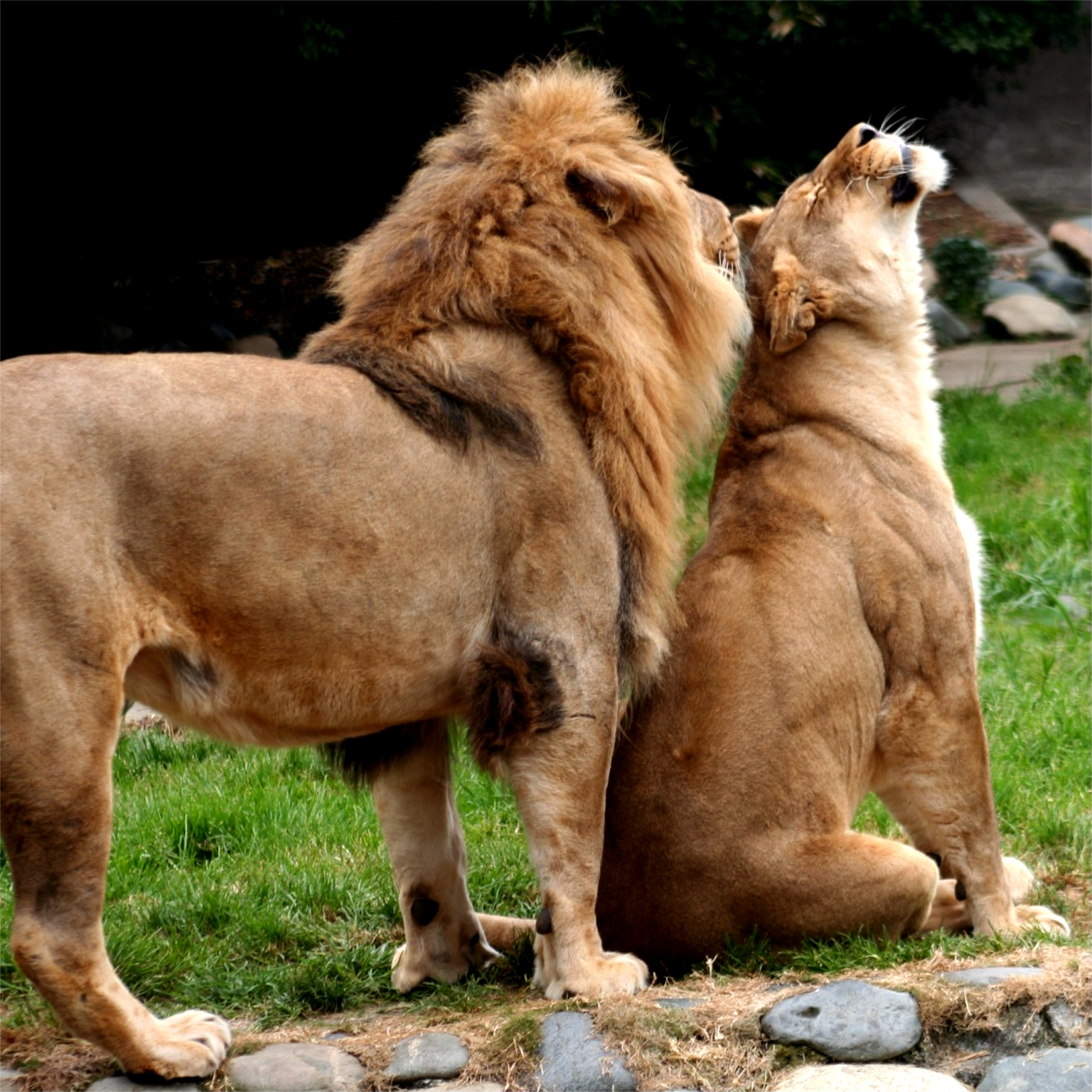 Lions in Love